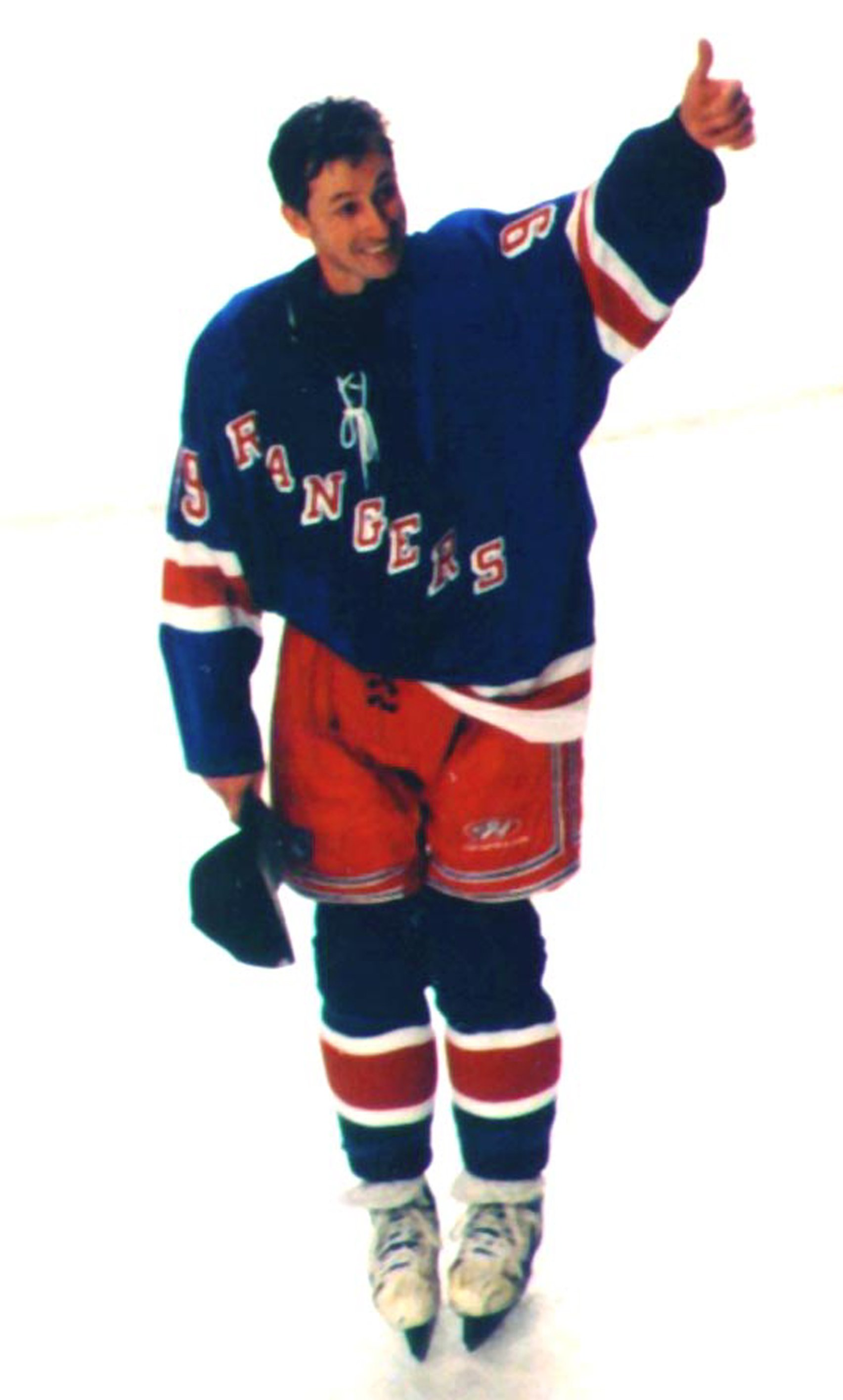 Wayne Gretzky Final Farewell at Madison Square Garden while after his last game as a New York Ranger. NHL Hockey April 18, 1999. He also played for the Edmonton Oilers, St. Louis Blues and Los Angeles Kings. The Leagues all time leading scorer and known as the Great One. NY Rangers.